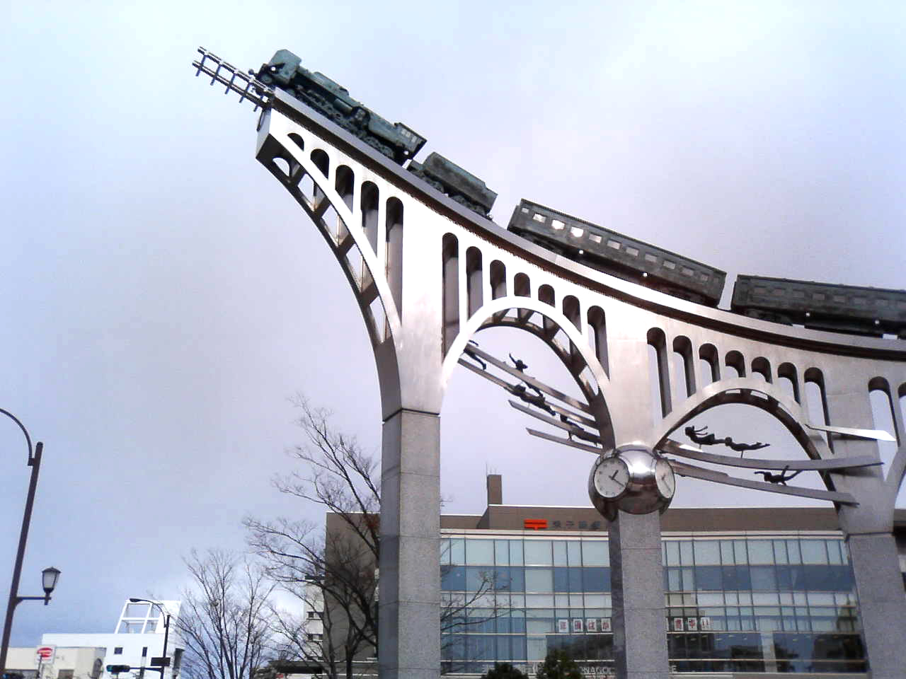 Monument of Dandanhiroba